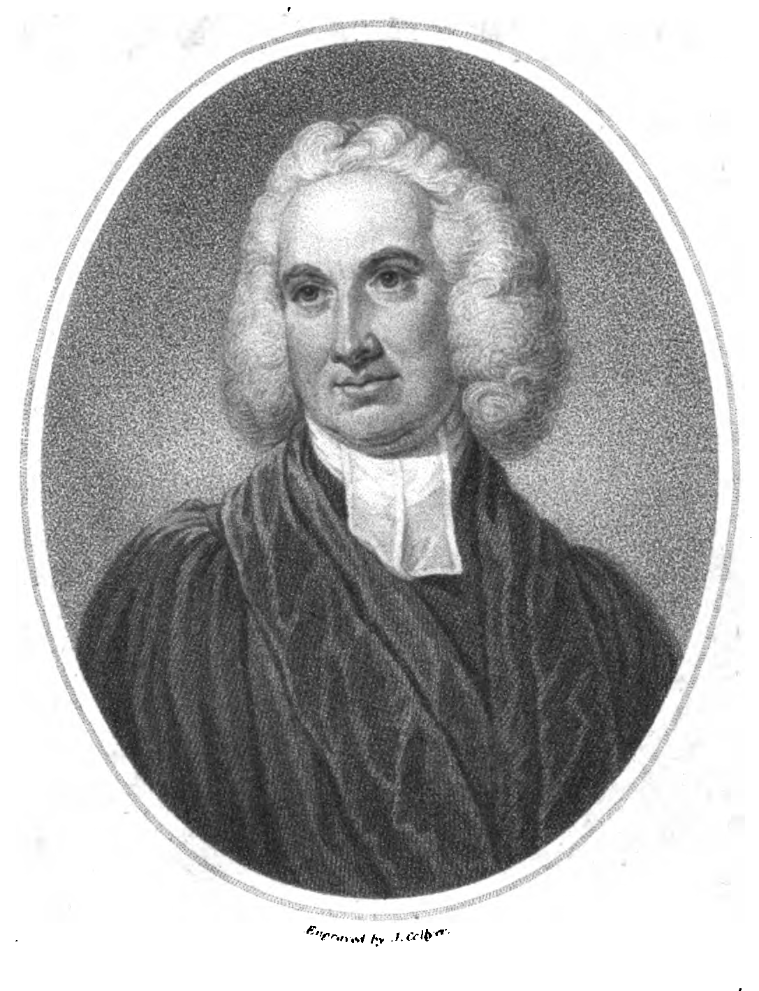 Edward Young (1683-1765). In: Night thoughts, on life, death, and immortality. Rivington, 1802